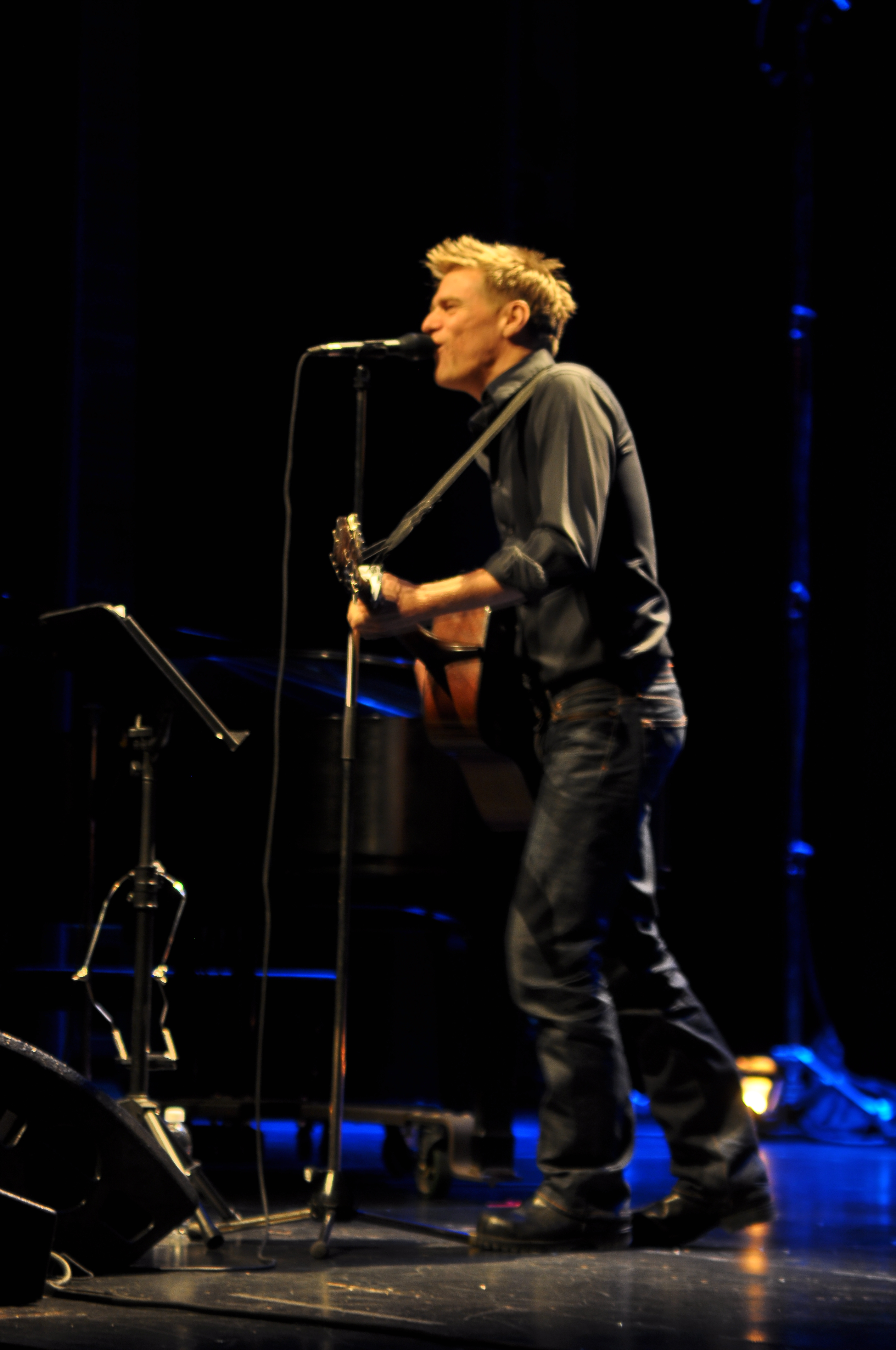 Video footage here Being a great photographer himself, Bryan knows how to shoot a concert. BA also knows how to prevent photogs from making money from his image. I was allowed media access but there was no point to it. He had the lights dimmed as low as possible, limit media photogs to only 2 songs and had us shoot from the worst angle. He never looked our way during the 2 songs either. After that, he'd look that way (once we moved away from the stage). This is the only decent shot. BA is a jerk. what is he protecting? His image from 20 years ago. get over yourself. Thanks for nothing. Go be obsolete.